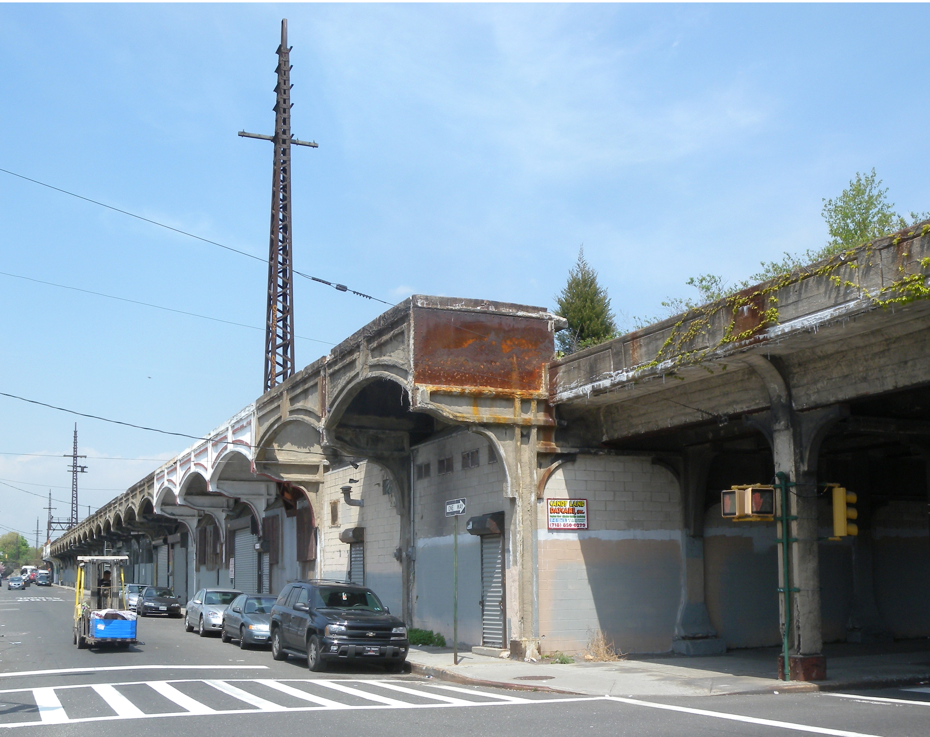 Looking north along 99th St at 103d Ave overpass and arcades along west side of RBB on a sunny afternoon. ZIP 11416.